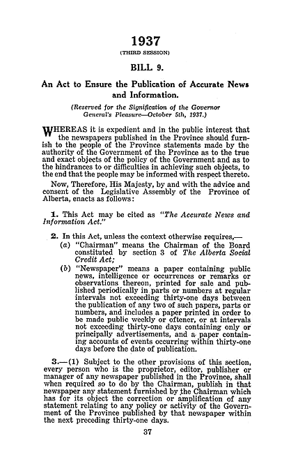 First page of An Act to Ensure the Publication of Accurate News and Information (short form: Accurate News and Information Act), a never assented-to statute of Alberta, Canada